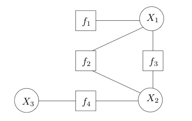 A simple factor graph